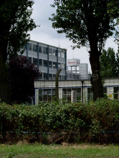 Bata Shoe Works. No shoes now in East Tilbury, the site is being reused for industrial units